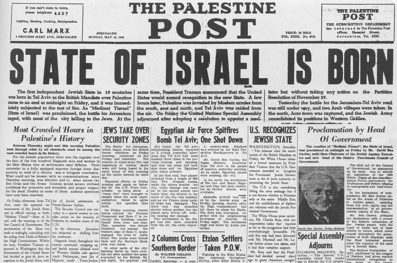 May 16, 1948 edition of Jewish newspaper The Palestine Post, soon renamed into The Jerusalem Post. May 15 was Shabbat.